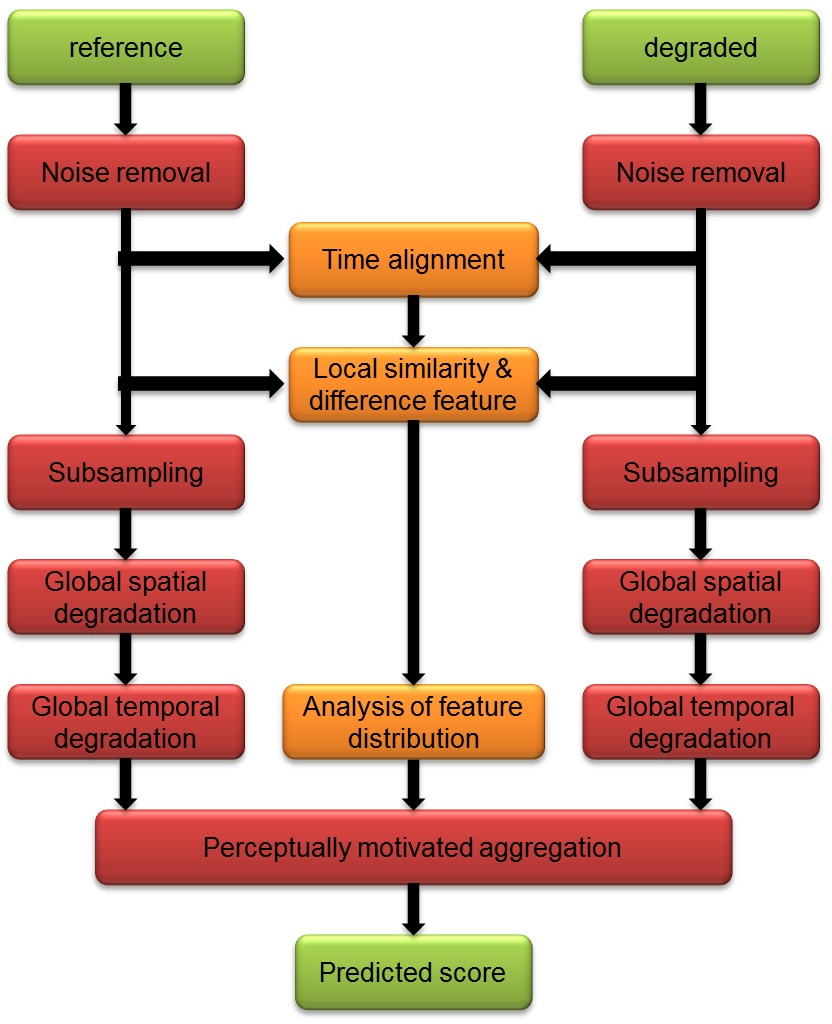 VQuad-HD, Flow chart